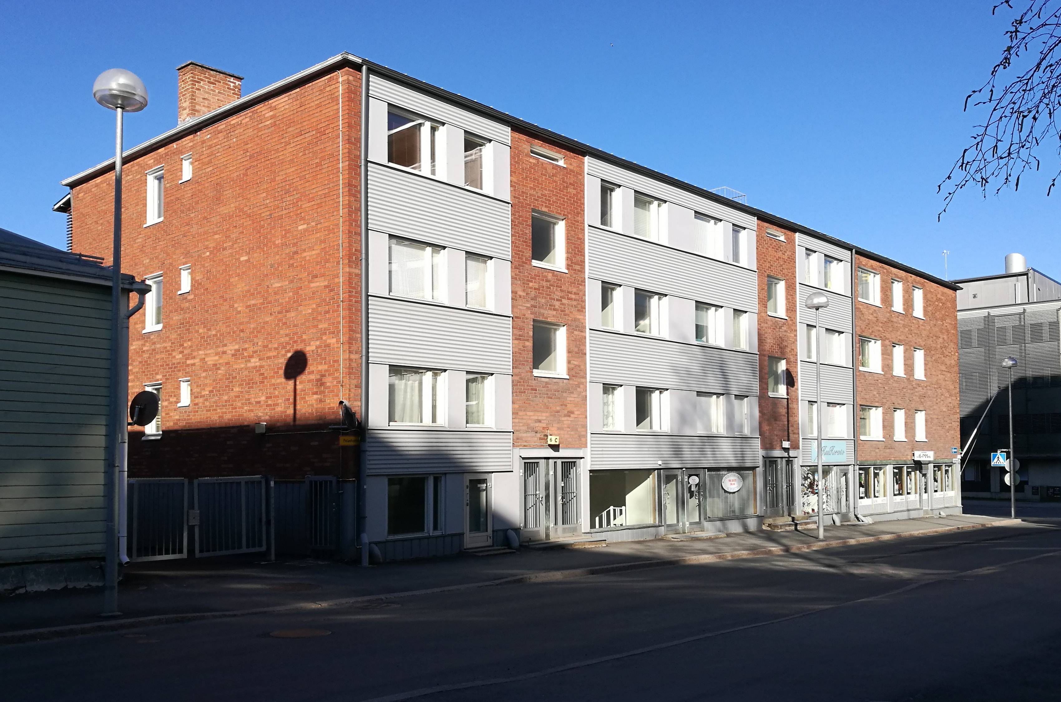 The apartment building in the corner of the Albertinkatu and Torikatu streets in Oulu was built in 1960.